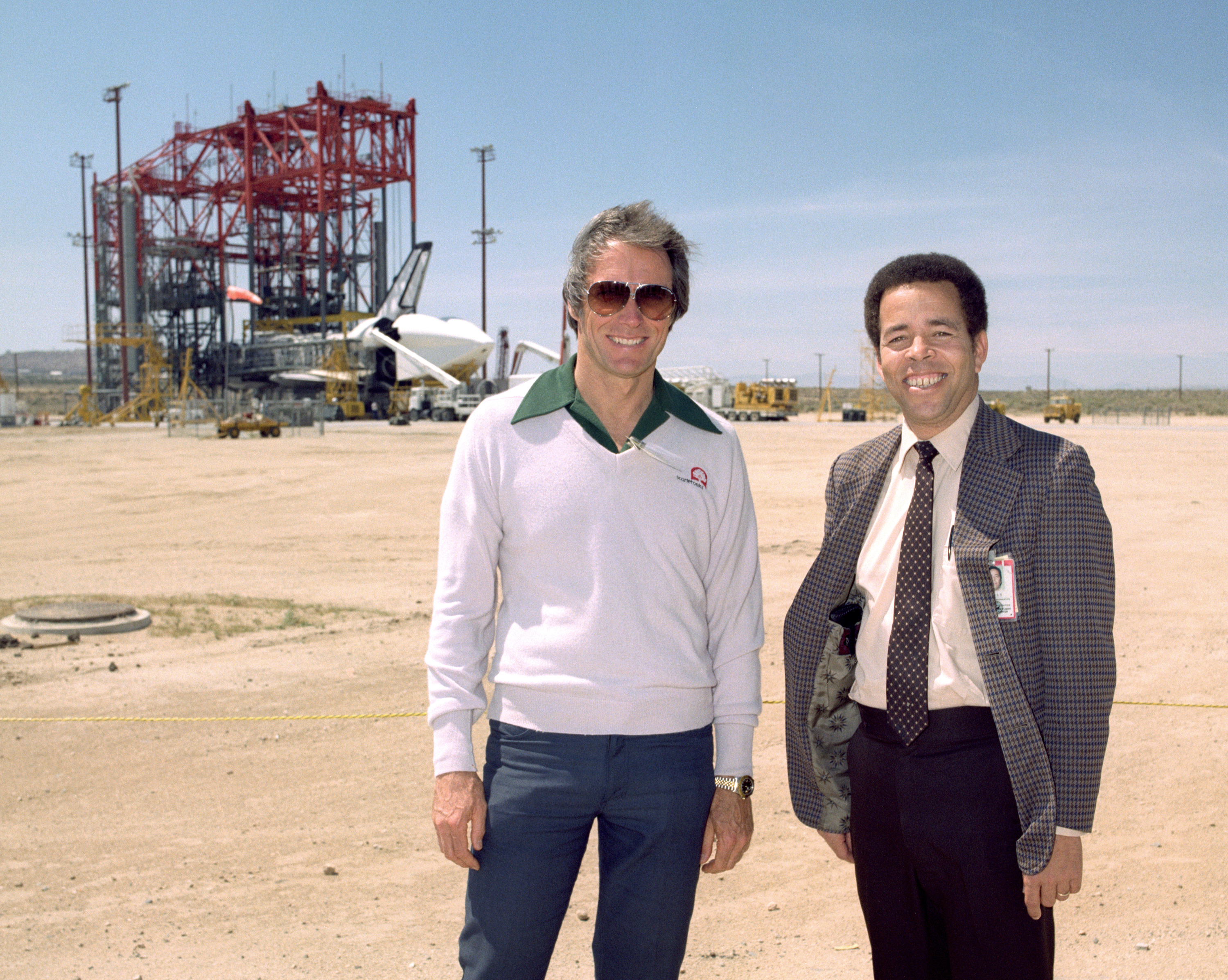 Actor Clint Eastwood and DFRC Center Director Ike Gillam Pose near the Space Shuttle Columbia shortly after it had completed its first orbital flight.